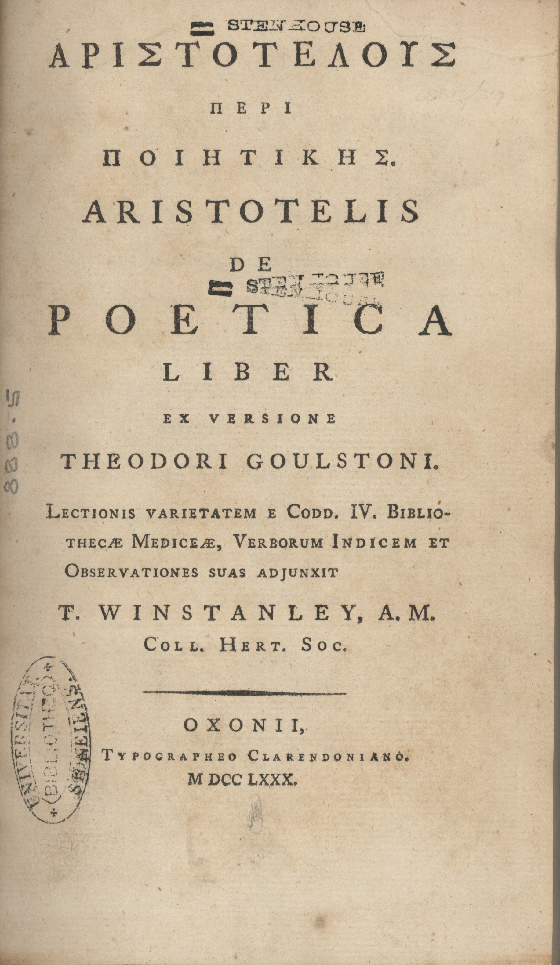 1780 edition of The Poetics by Author:Aristotle